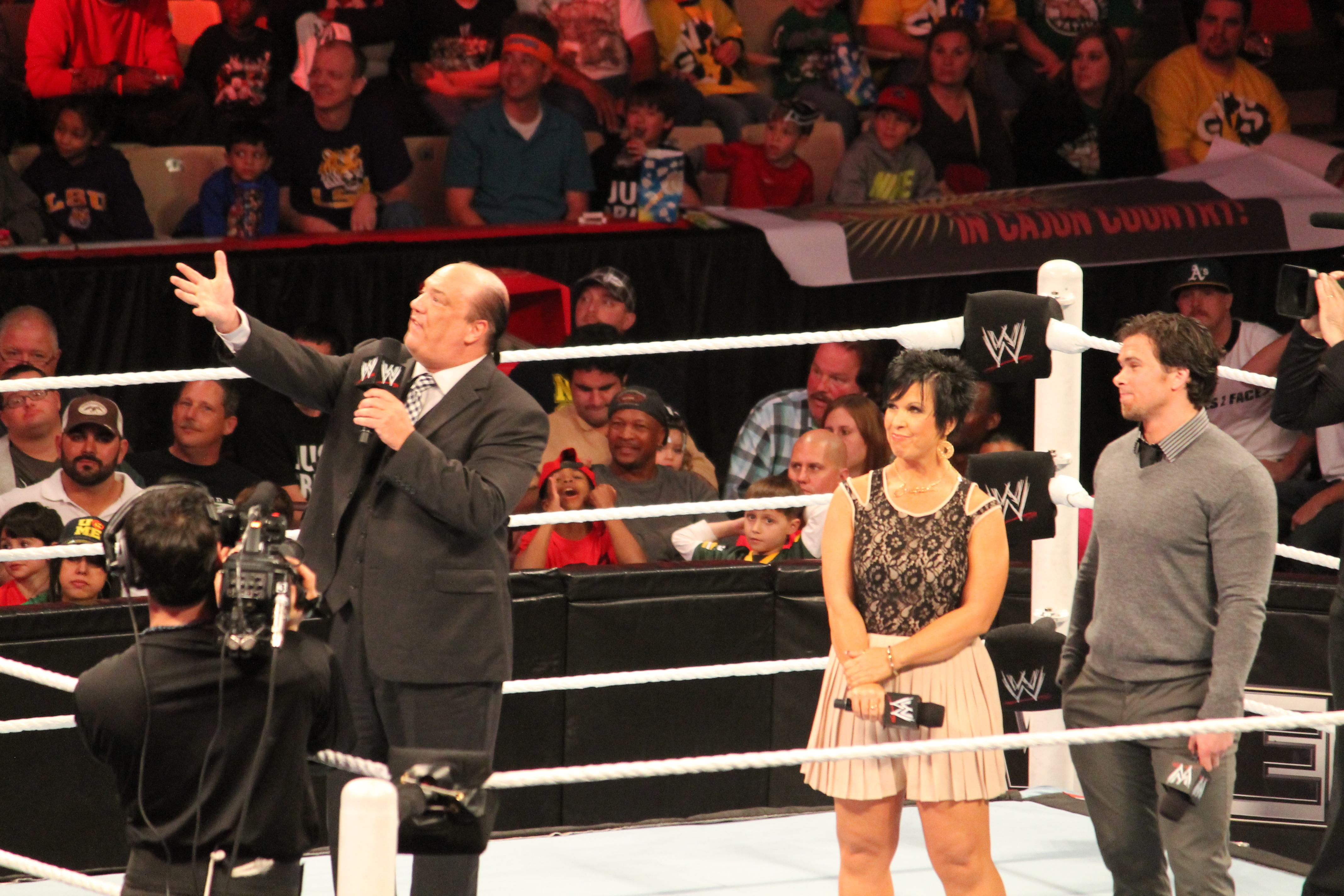 heyman and two GM